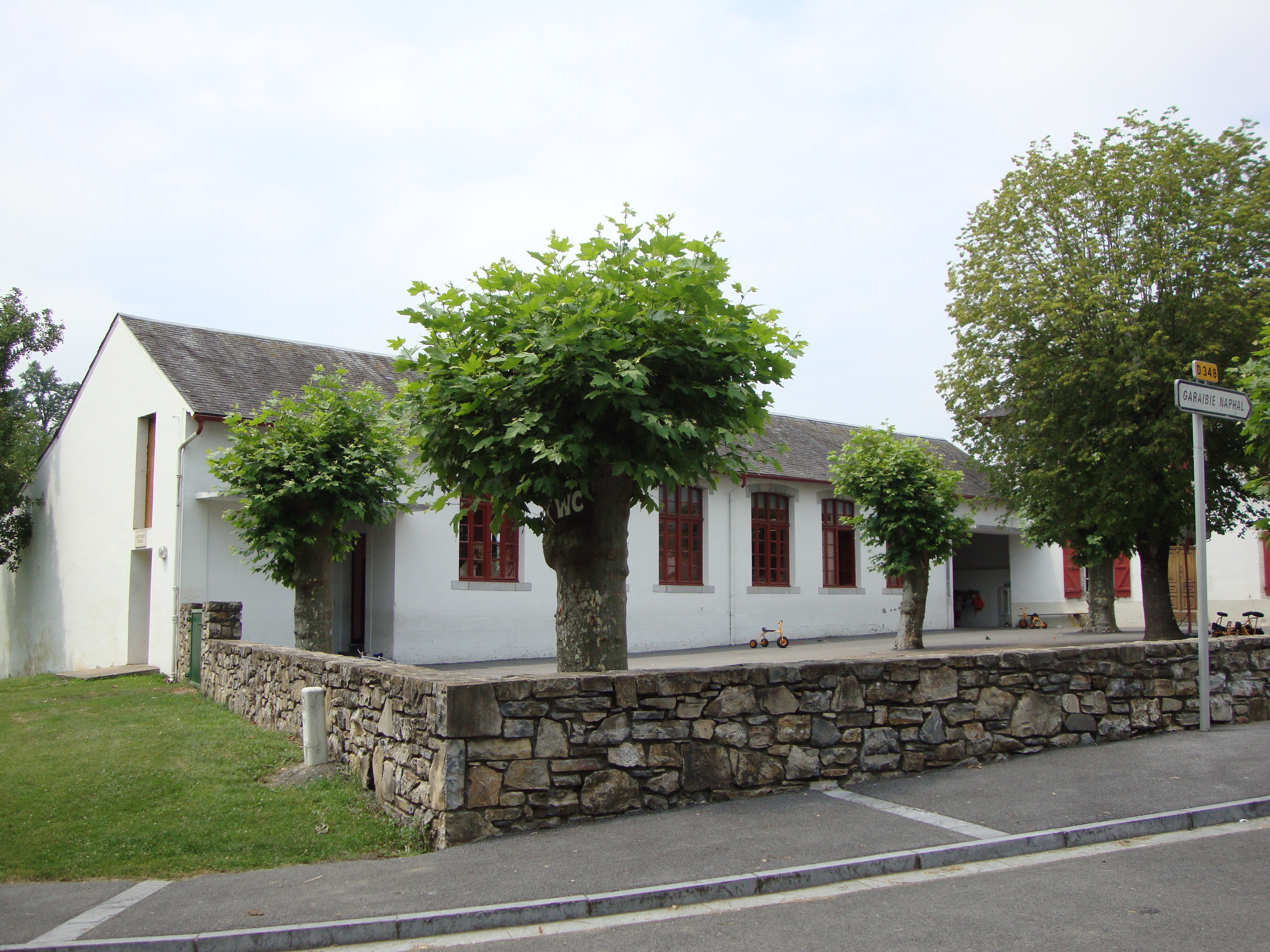 Ordiarp (Pyr-Atl, Fr) school